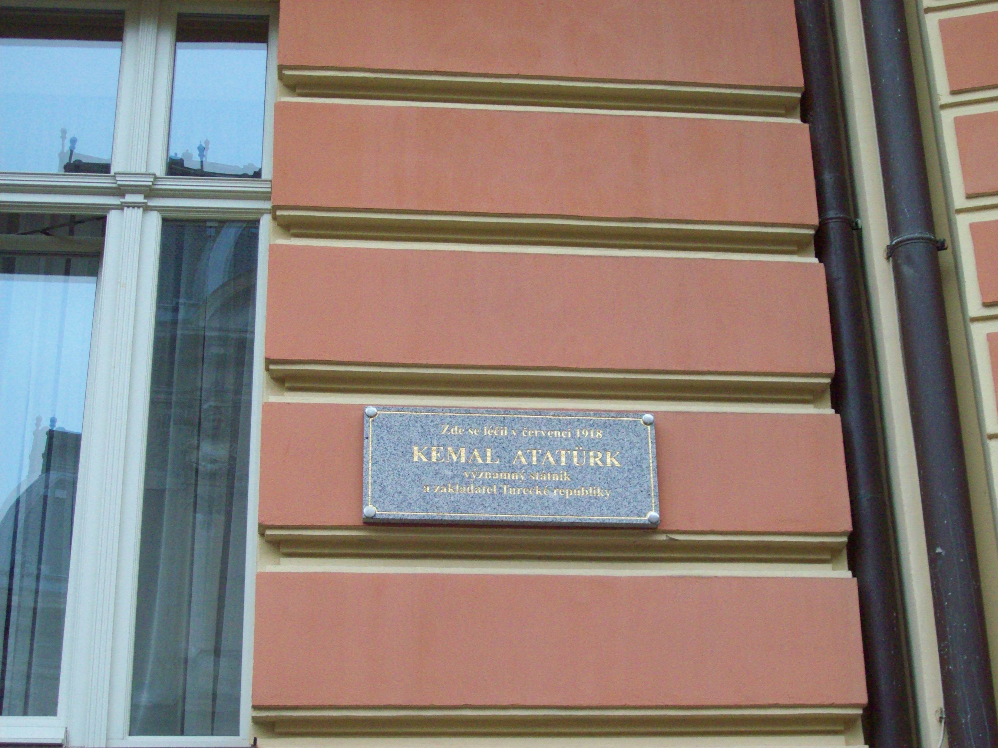 Karlovy Vary-Atatürk sign plate